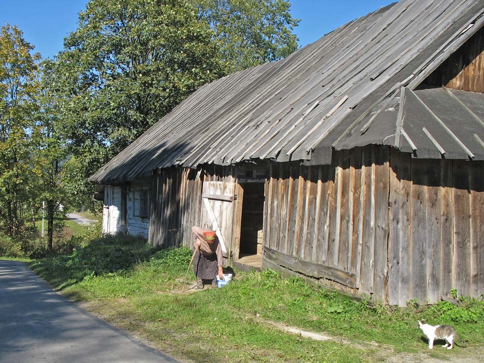 Nowica (Poland), Lemko cottage